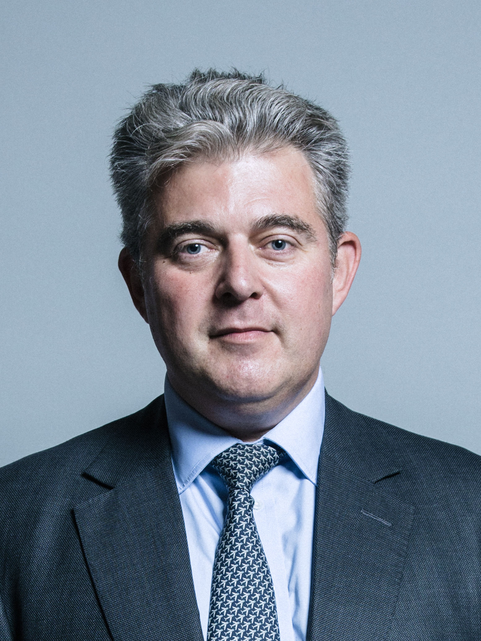 Official portrait of Brandon Lewis